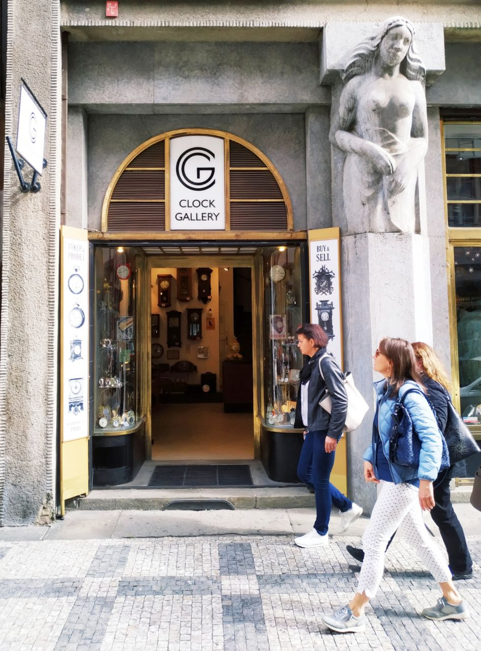 Old Clock and Watch Shop in Jungmannova street